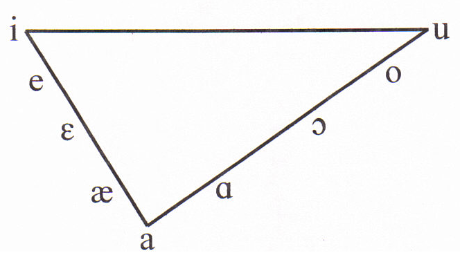 Vowel triangle, filled in with some English vowels.